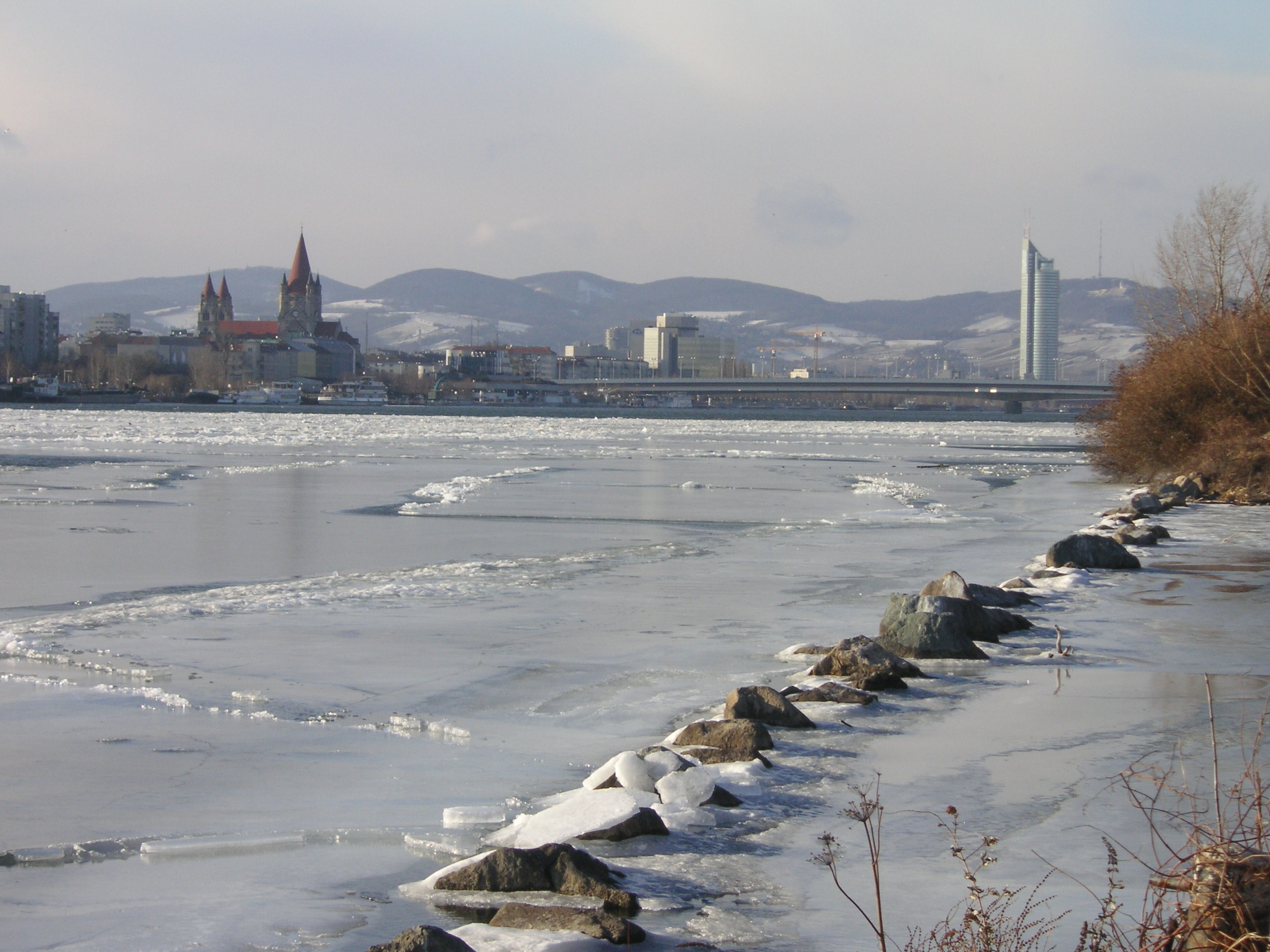 Austria, Vienna, Danube